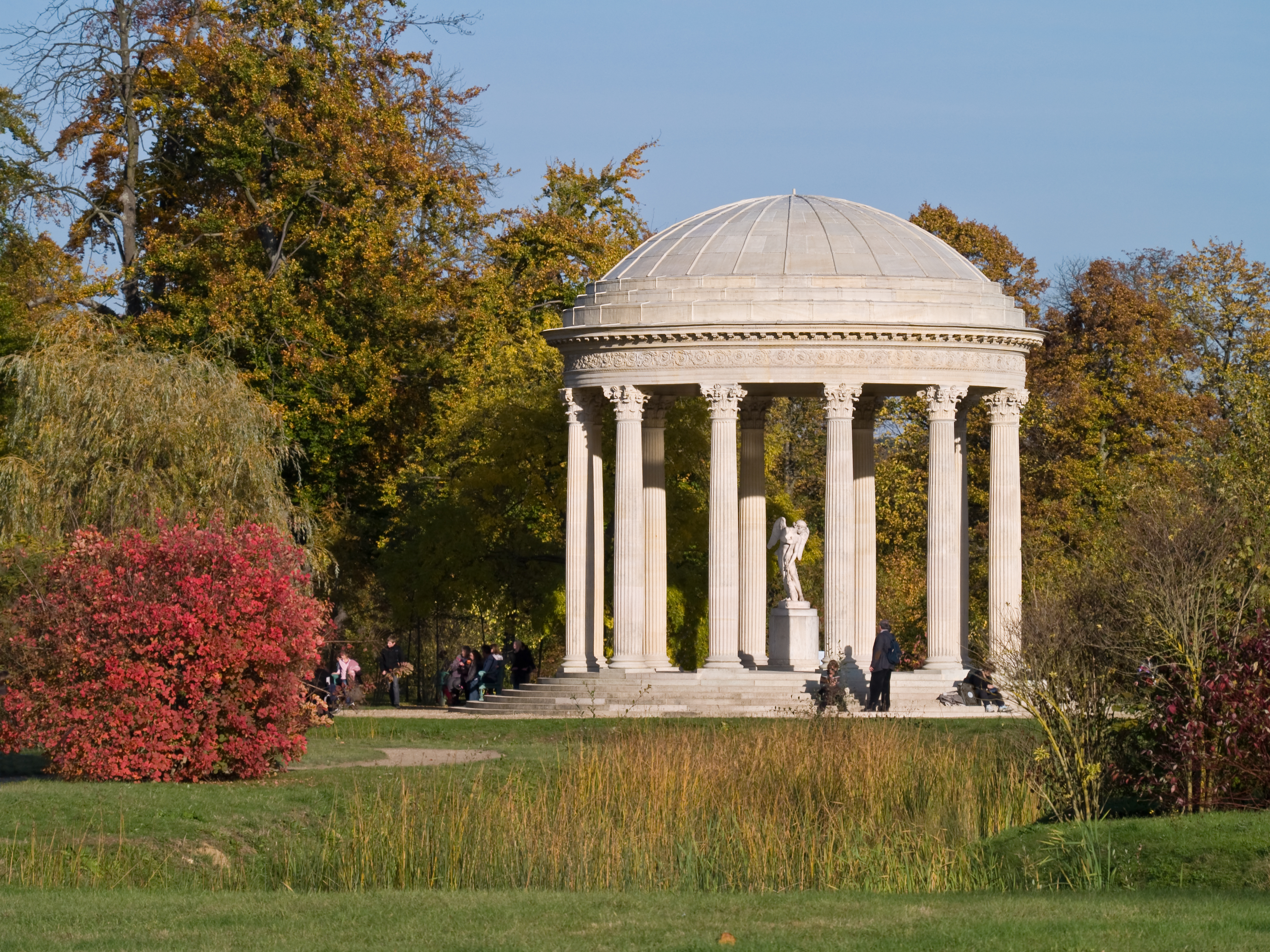 The Temple of Love (Temple de l'Amour), erected by Richard Mique in 1778 in the English garden of the Petit Trianon in Versailles, France.